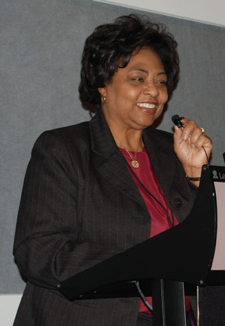 Shirley Sherrod, a Georgia USDA employee, whose comments at an NAACP meeting led to a media frenzy in July 2010